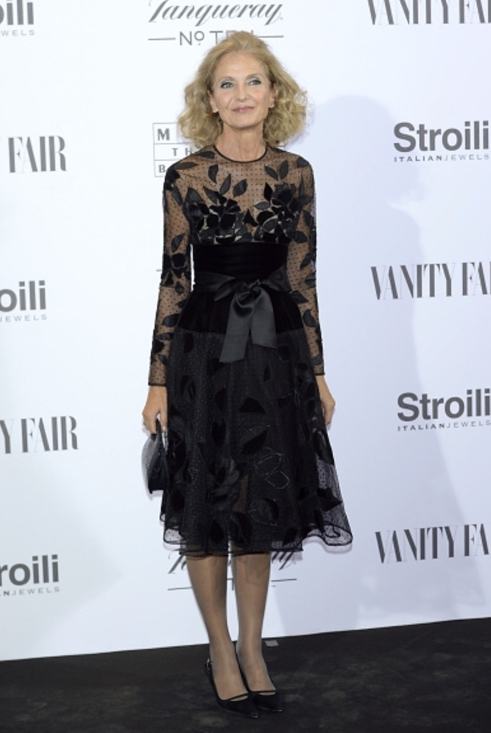 Pilar Medina Sidonia Attended the Hubert de Givenchy exhibition opening at the Thyssen Musem of Madrid on October 20, 2014